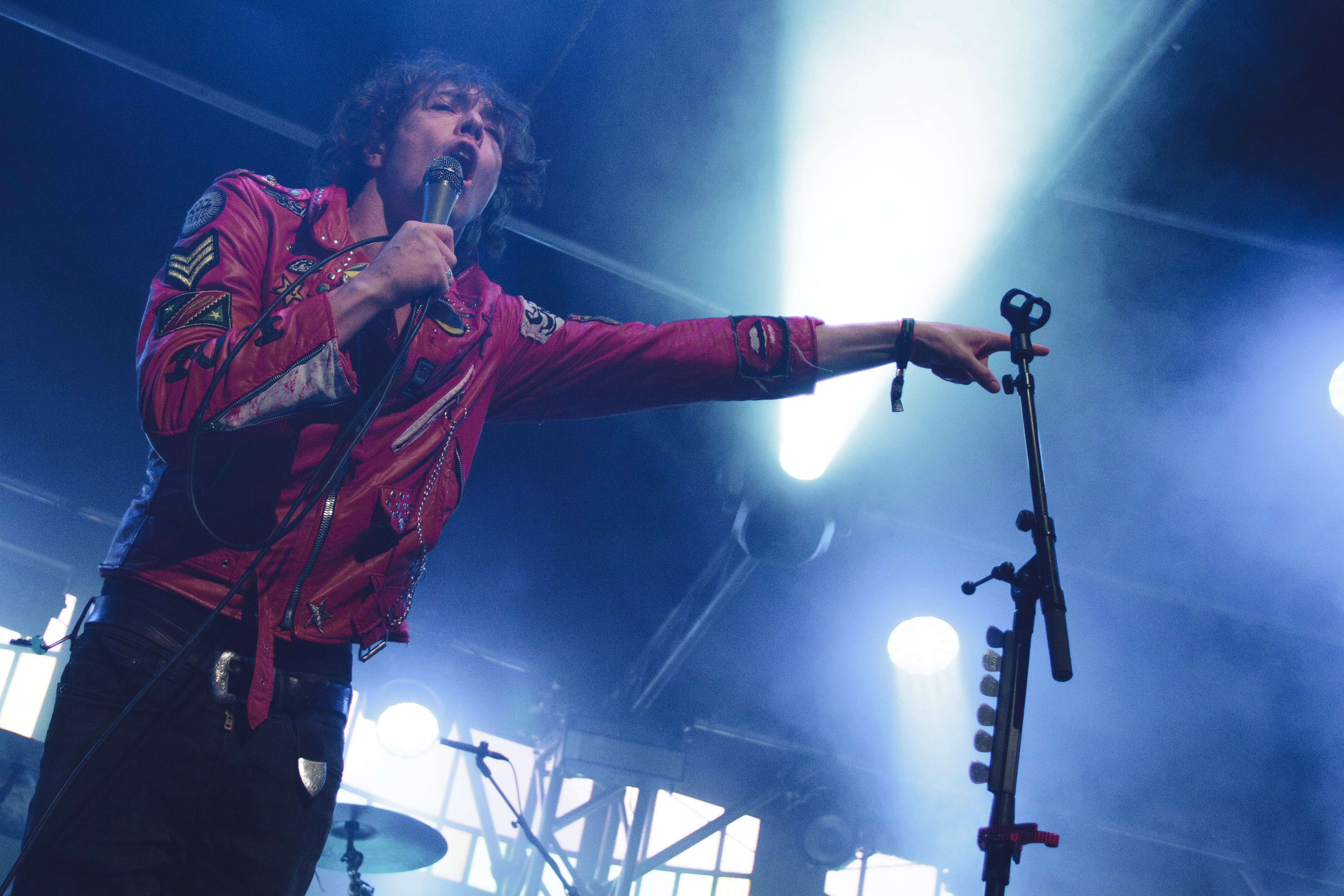 Barns Courtney in the Spiegeltent at Haldern Pop Festival 2019.